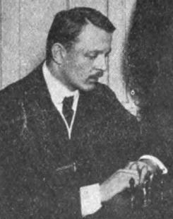 Photo of Oldřich Duras